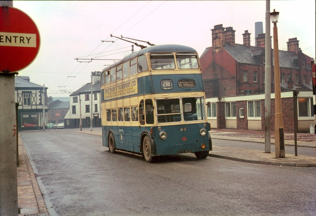 British Trolleybuses - Ashton-under-Lyne. An Ashton trolleybus stands in Stalybridge Bus Station ready to depart on the route to Manchester (Piccadilly) on the last day of trolleybus operation. Although Stalybridge never operated trolleybuses - they had run trams as part of a joint undertaking with Hyde, Mossley and Dukinfield - they nevertheless did own the overhead wires within the local authority area. The Bus Station has been modernised, but apart from the low building to the right which was part of the bus station, the other buildings all still exist. Trolleybus 83 was a 1956 BUT 9612T.